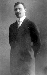 Üzeyir Hacıbəyov (d. 1948 - Azerbaijan)